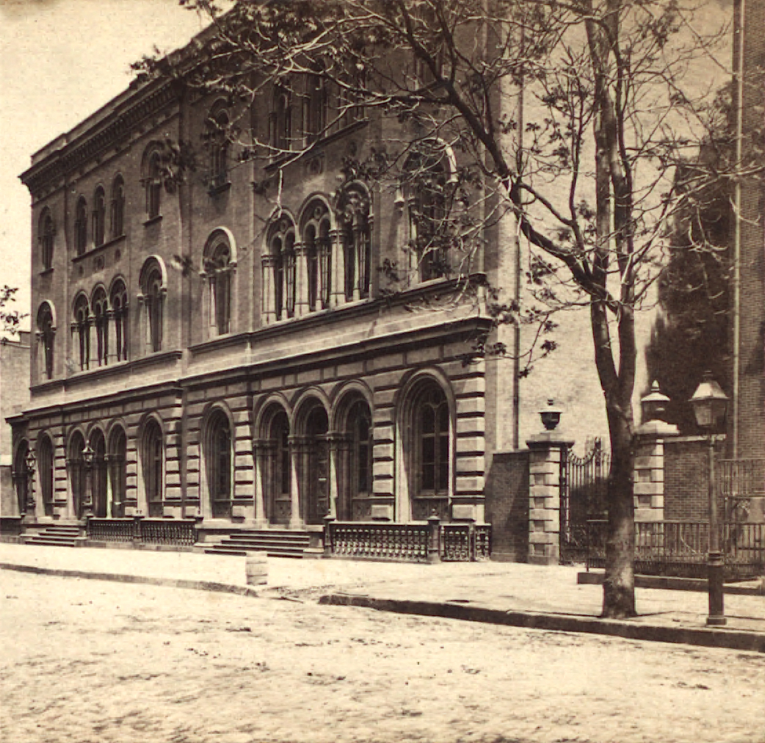 Jpg version of File:Astor Library, Lafayette Place; New York, New York.png